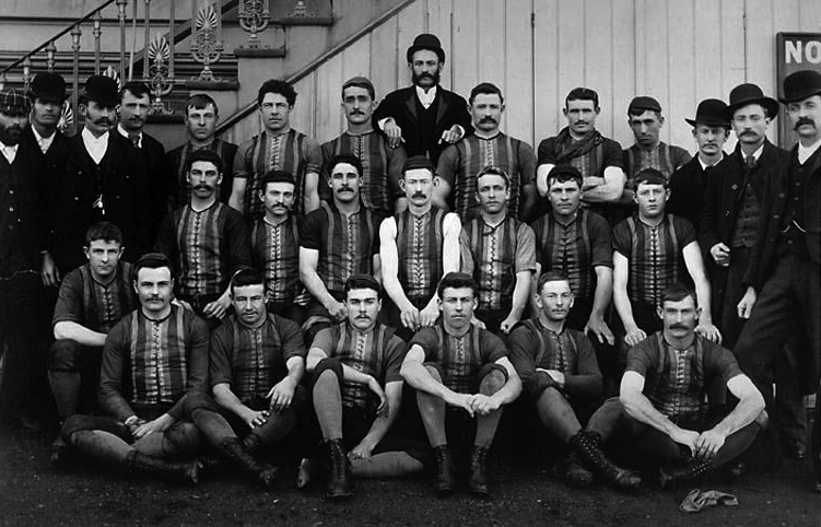 Photo of the Port Adelaide premiership team from the 1897 SAFA season.